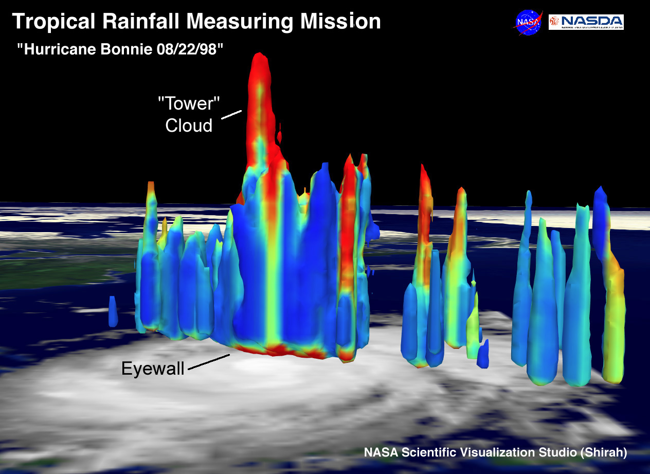 Hot tower in Hurricane Bonnie 1998 (altitude of clouds exaggerated). From NASA